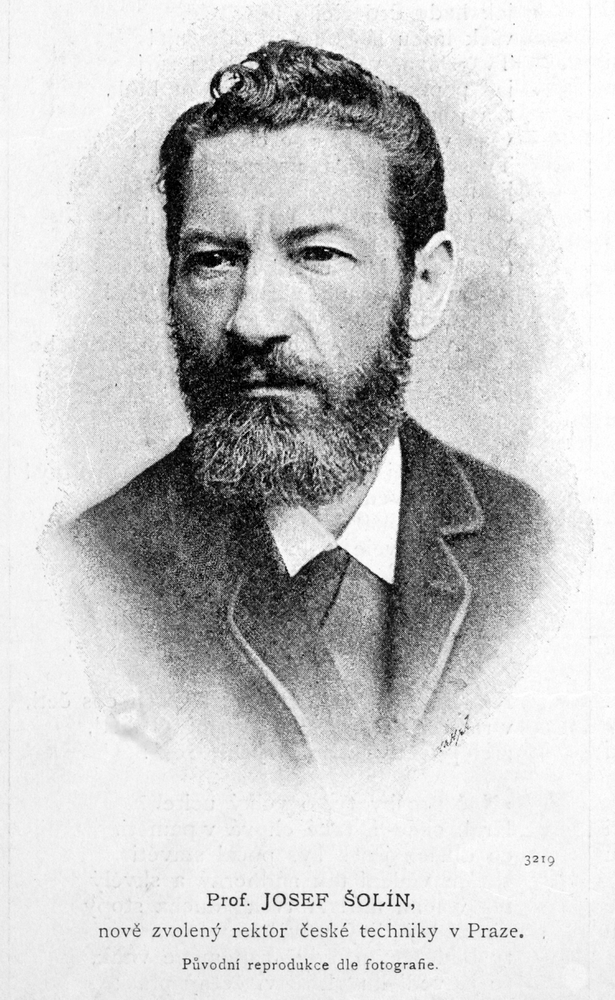 Portrait of Josef Šolín (1841 - 1912), Czech professor of technology